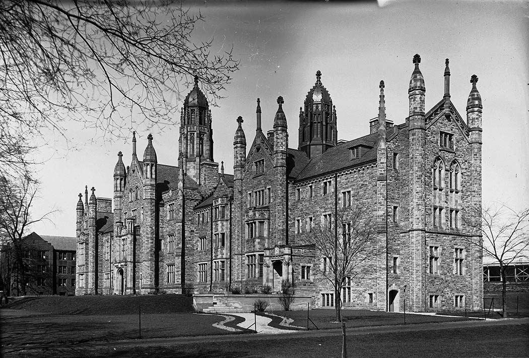 Trinity as it appeared in 1929